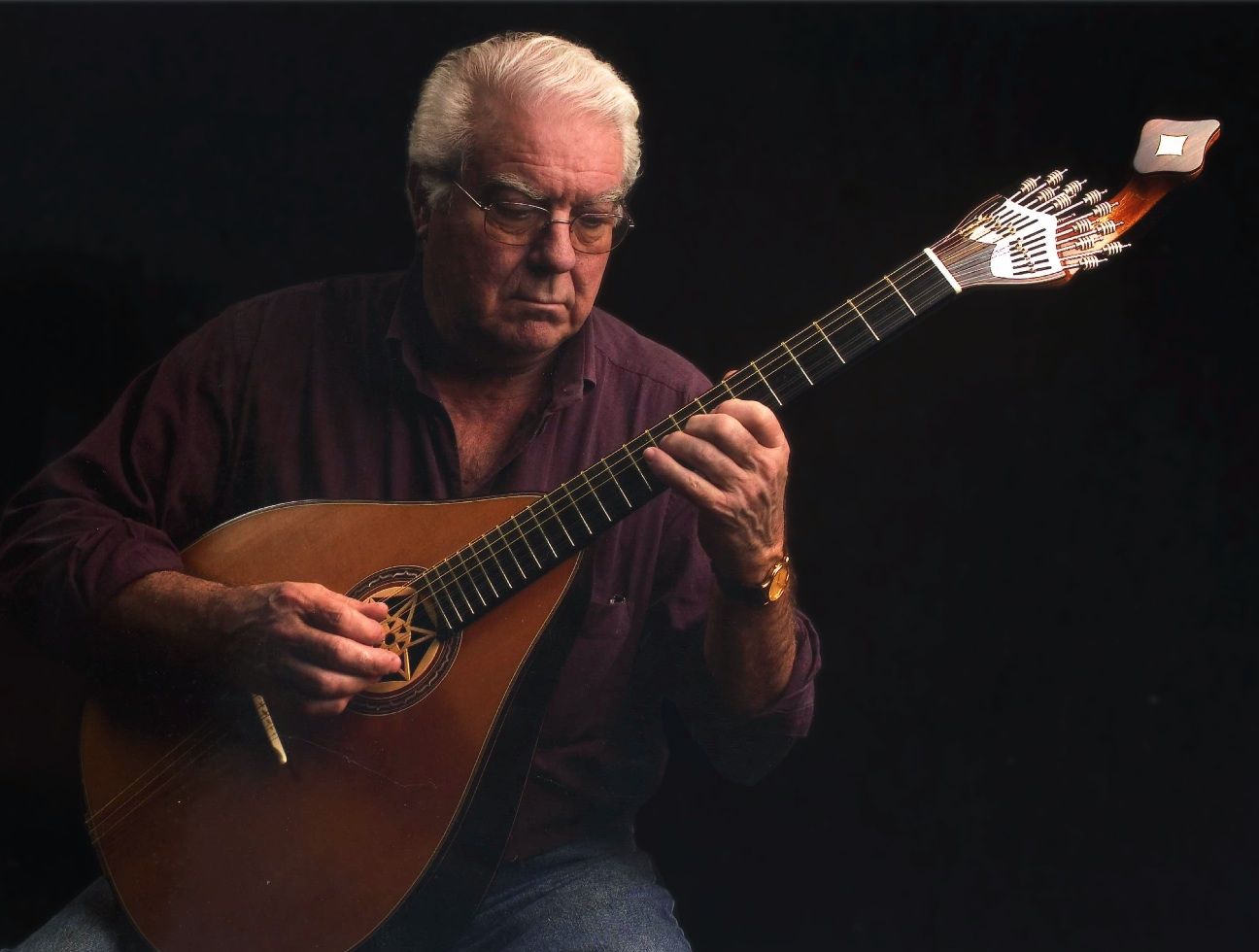 The Guitolão played by Gilberto Grácio (luthier)